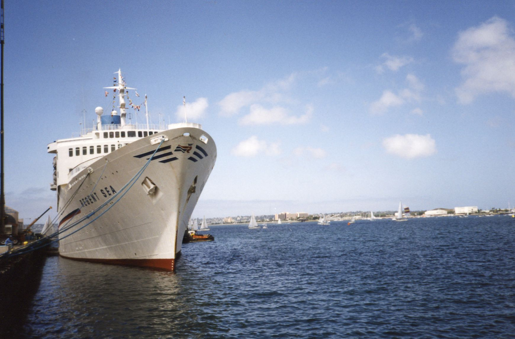 Regent Sea San Diego, California